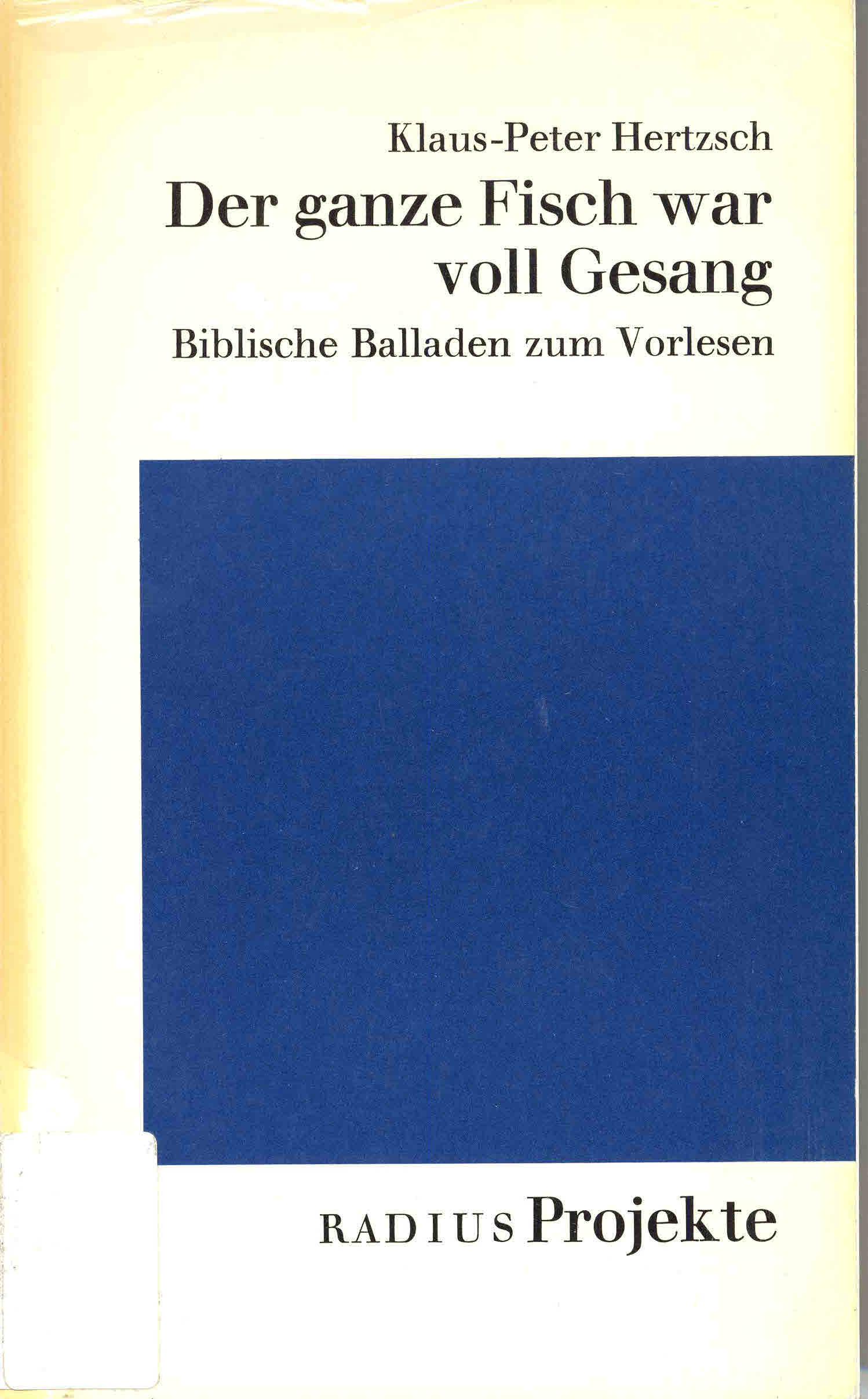 Cover of a book by Klaus-Peter Hertzsch from the year 1970